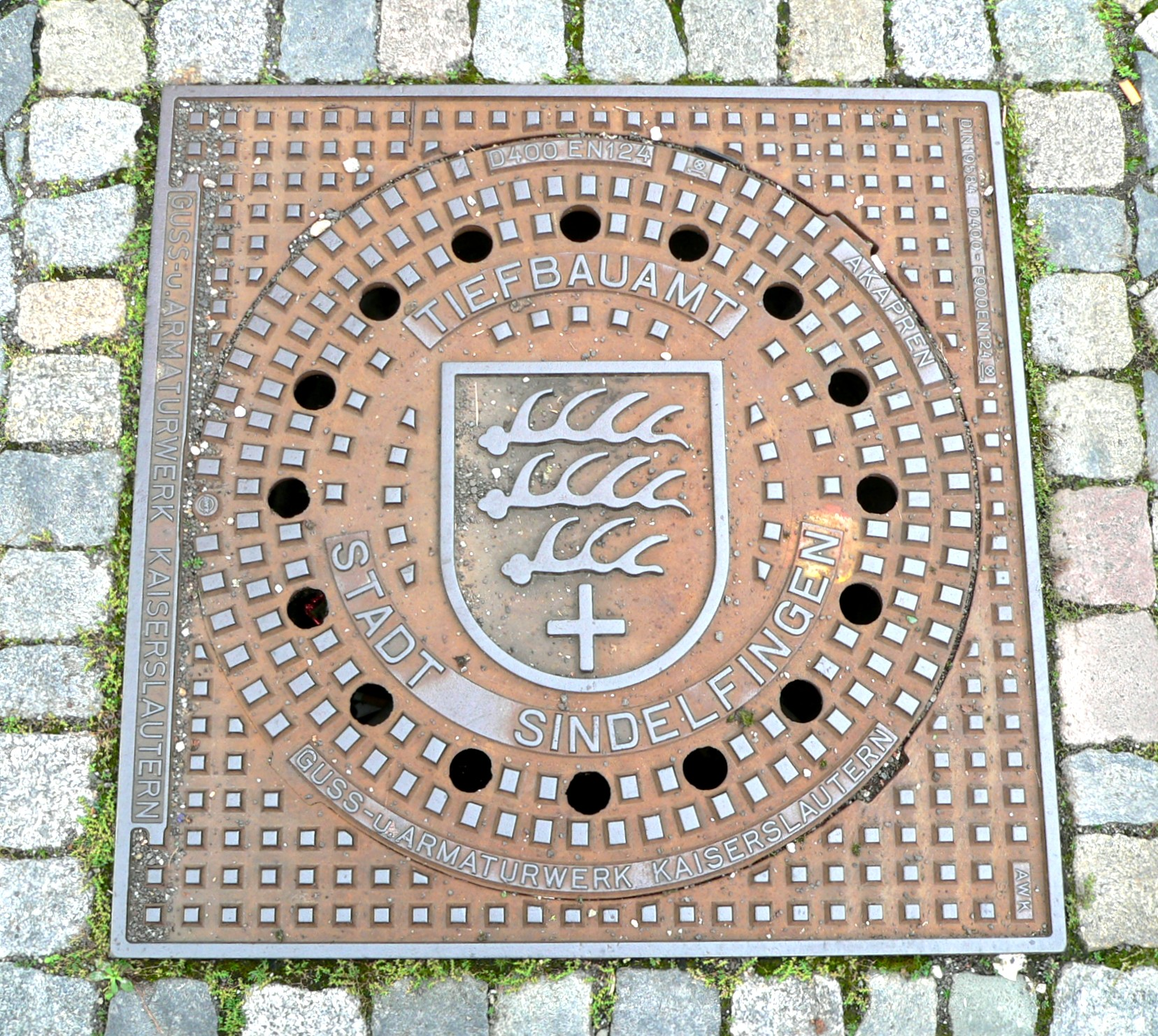 Manhole cover in Sindelfingen, Germany